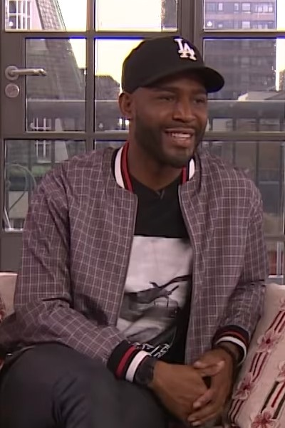 Karamo Brown at an MTV International interview on June 2018.